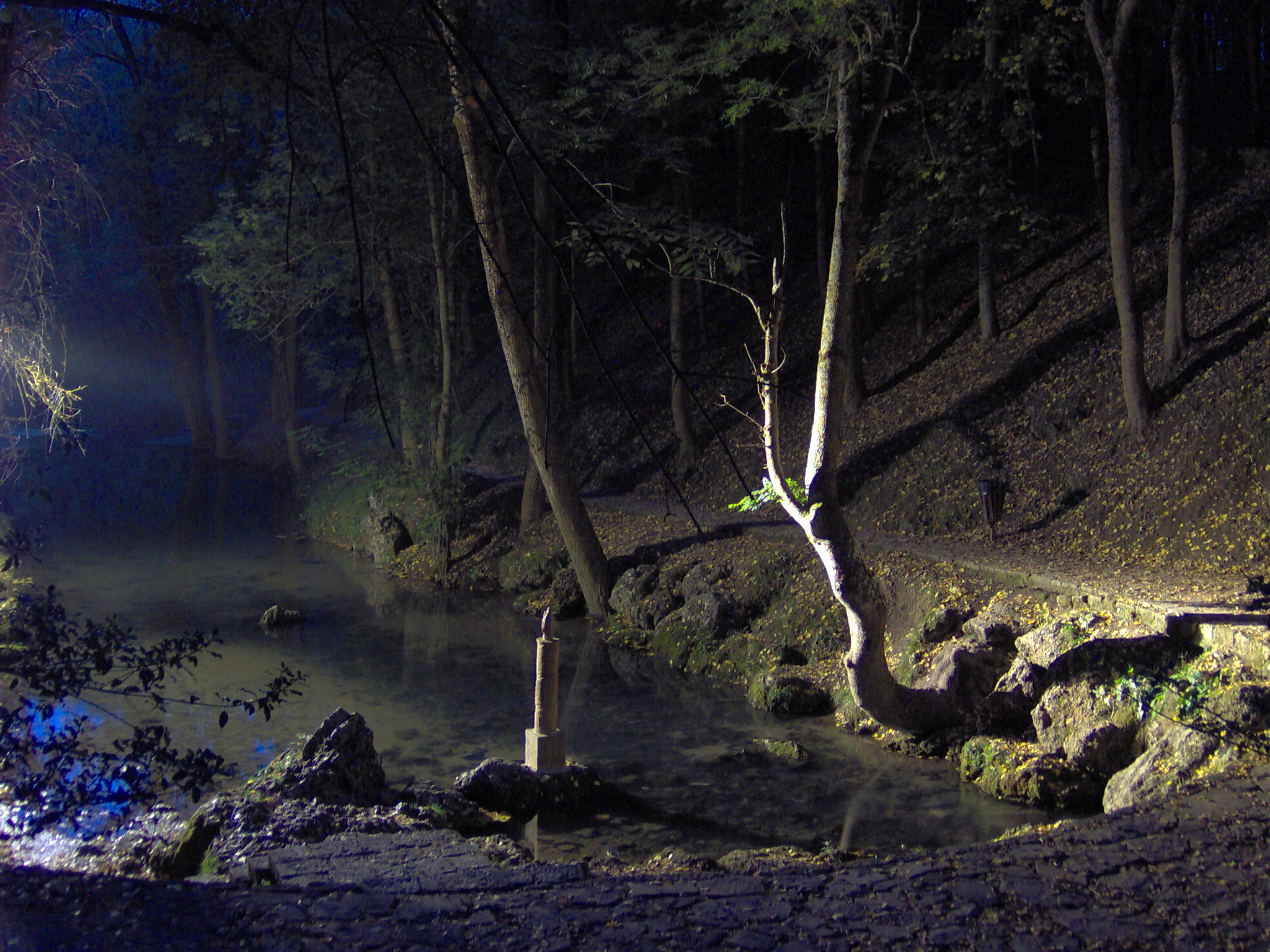 Fontibre, birthplace of the Ebro River, at night (Cantabria, Spain)